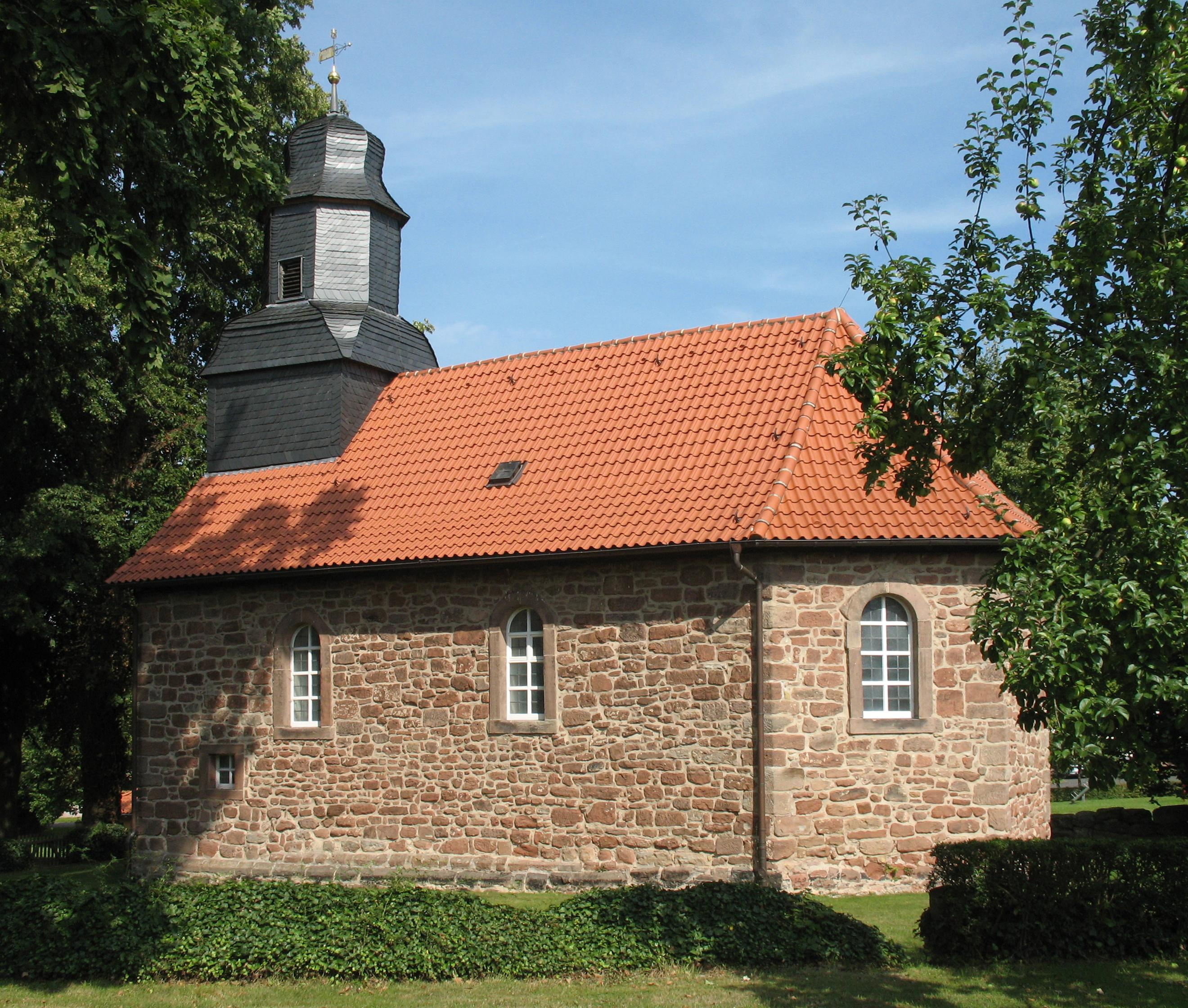 Church in Friedland-Lichtenhagen in Lower Saxony, Germany